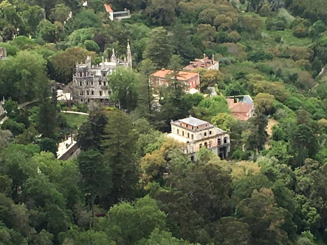 View towards the Quinta do Relógio in Sintra, Portugal.